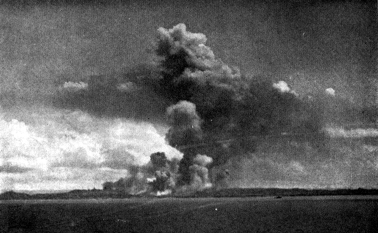 Burning oil refineries at Balikpapan, Borneo, in July 1945.